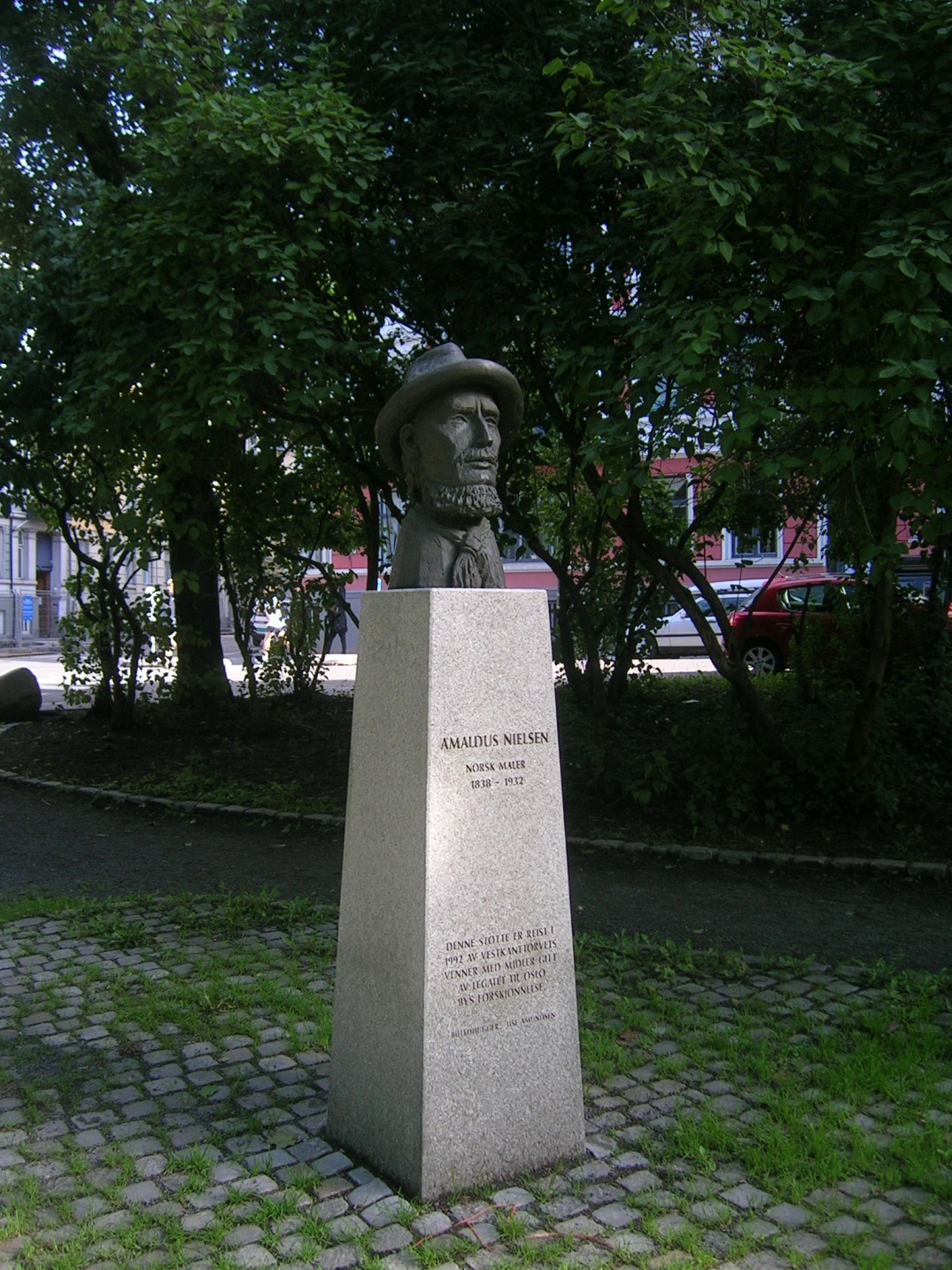 Bust of Amaldus Nielsen, Vestkanttorget, Oslo